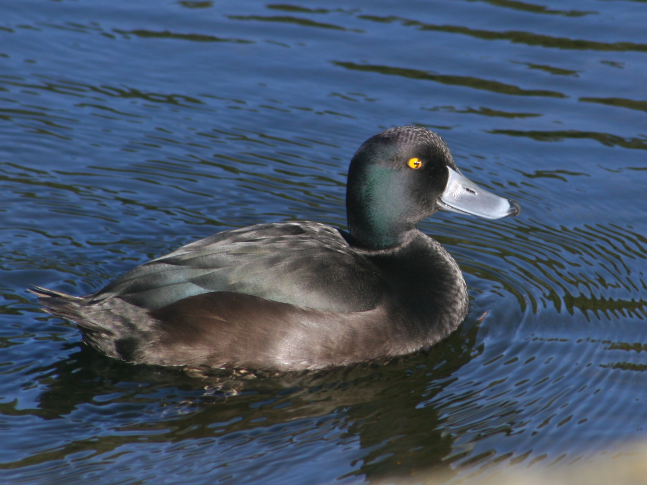 New Zealand Scaup. Karori Wildlife Sanctuary, Wellington, New Zealand. Māori: Papango